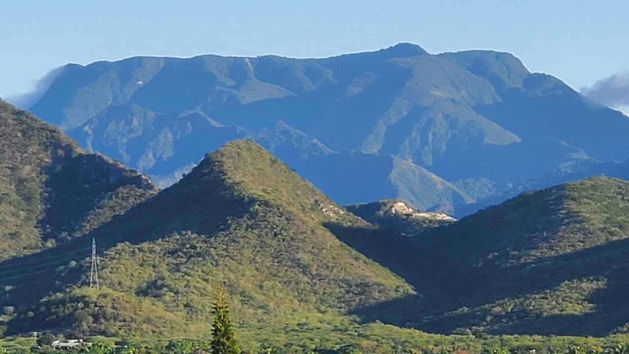 Barbacoa DR